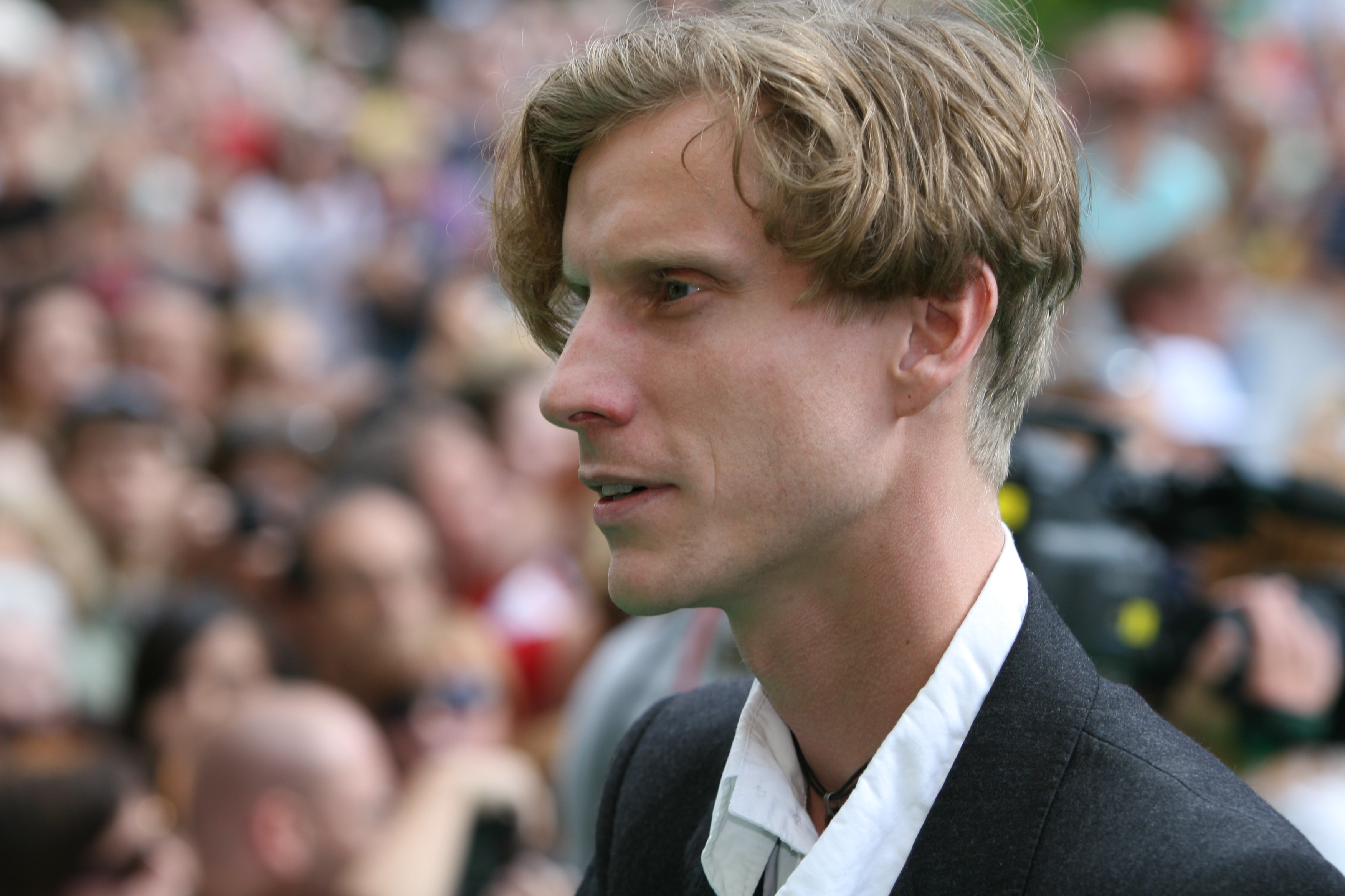 Czech actor Jaromír Nosek on Karlovy Vary International Film Festival 2008